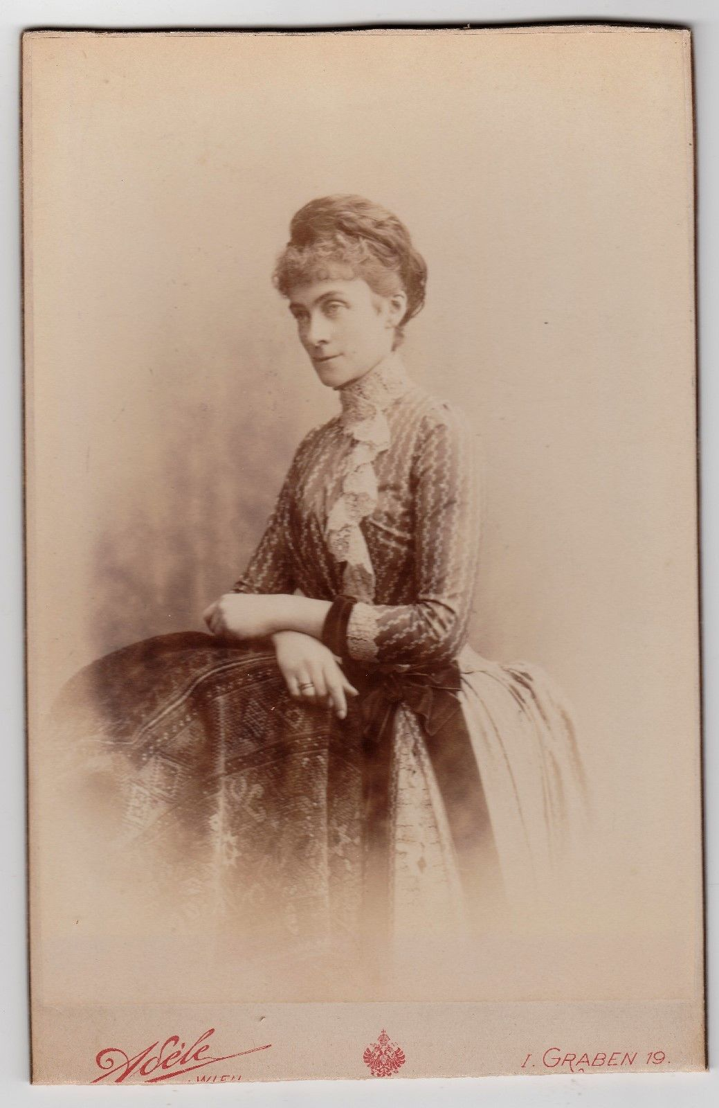 Duchess Sophie Charlotte in Bavaria